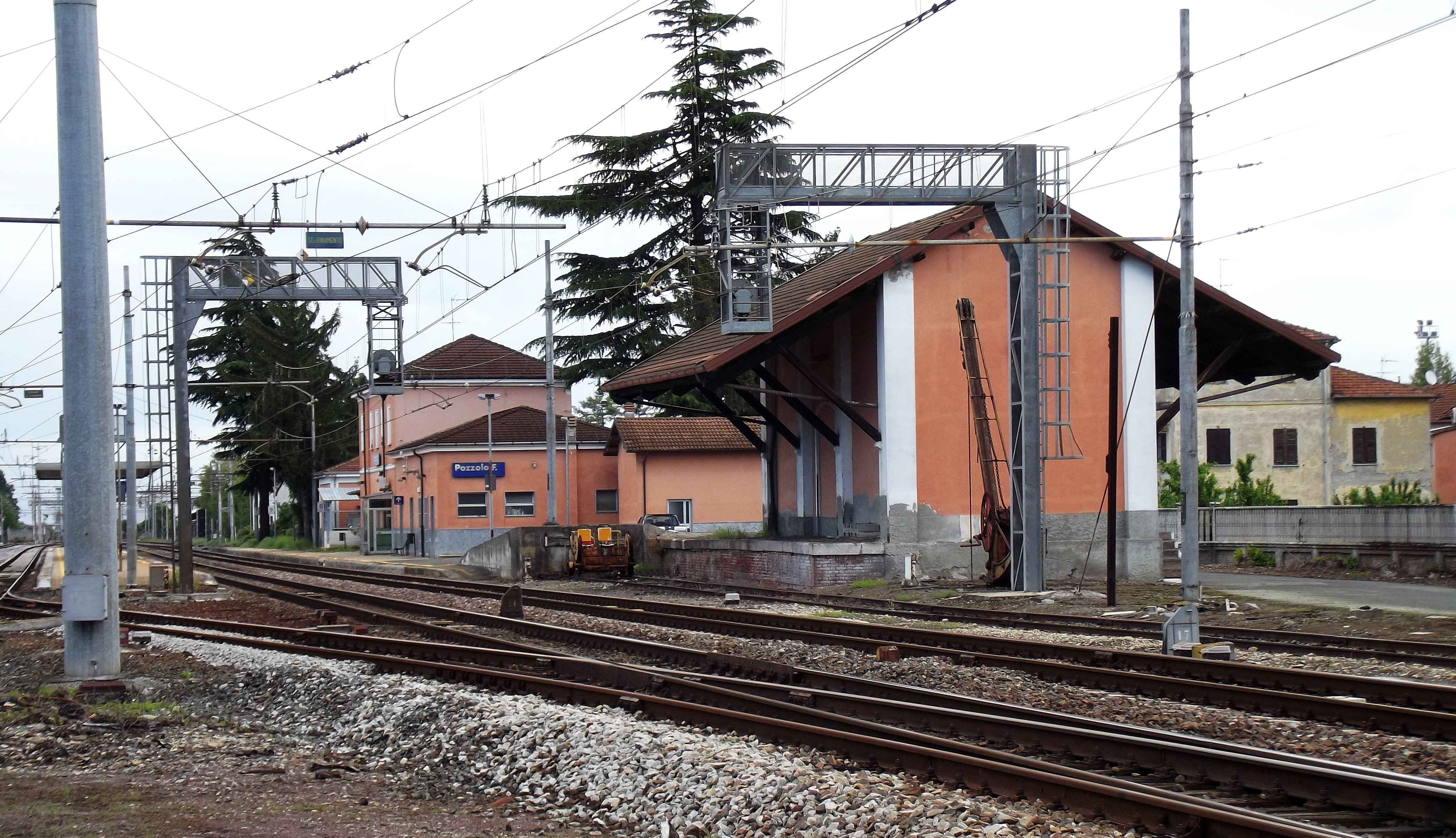 Pozzolo Formigaro (AL, Italy): train station